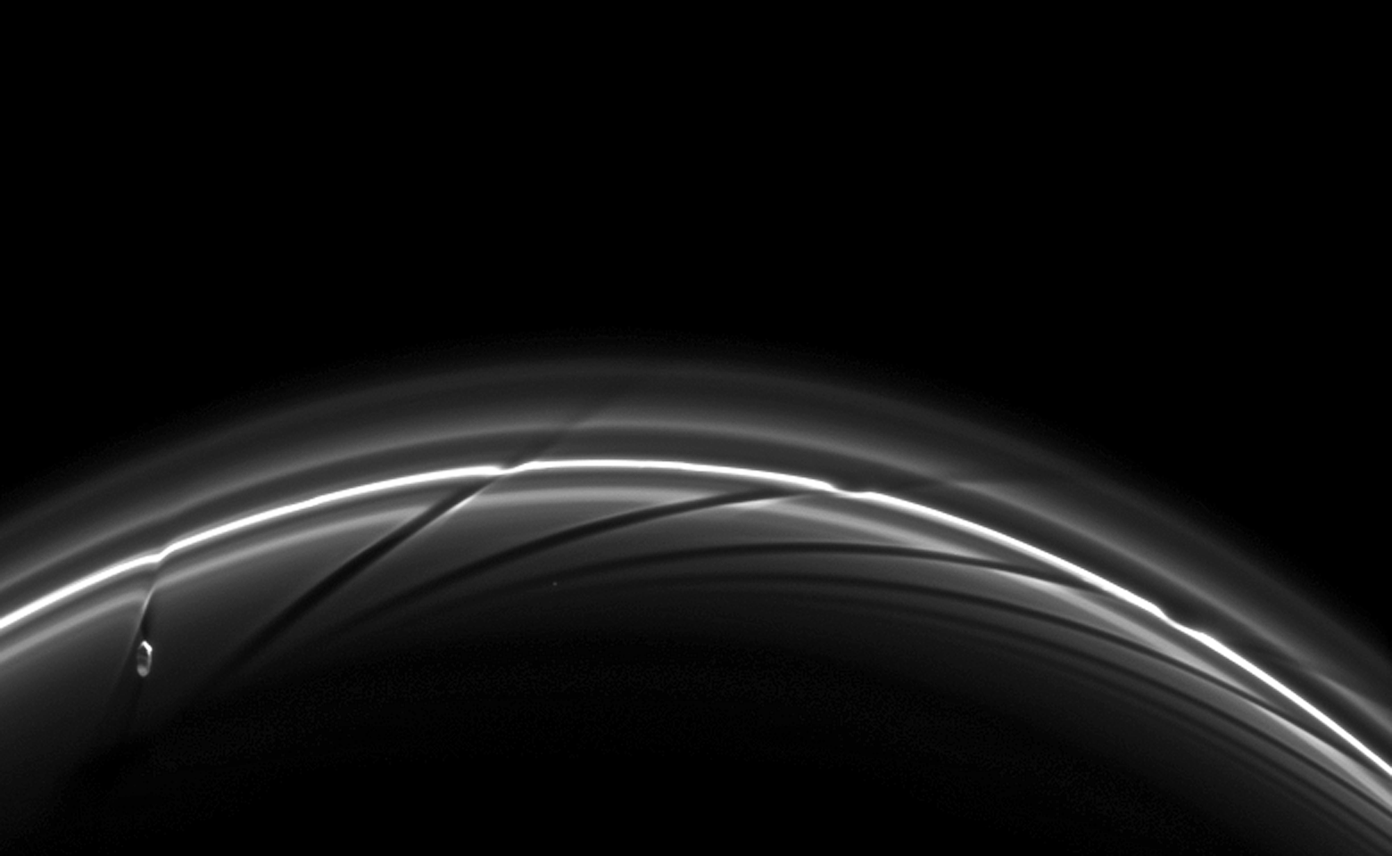 Cassini spacecraft image of Prometheus, one of Saturn's small inner moons, interacting with the F ring. Saturn's moon Prometheus, having perturbed the planet's thin F ring, moves away as it continues in its orbit. The gravity of potato-shaped Prometheus (86 kilometers, 53 miles across) periodically creates streamer-channels in the F ring, and the moon's handiwork can be seen in the dark channels here. To learn more and to watch a movie of this process, see PIA08397. This view looks toward the northern, sunlit side of the rings from about 10 degrees above the ringplane. A star is visible through the rings near the center right of the image. The image was taken in visible light with the Cassini spacecraft narrow-angle camera on June 1, 2010. The view was acquired at a distance of approximately 1.3 million kilometers (808,000 miles) from Saturn. Image scale is 7 kilometers (5 miles) per pixel. The original NASA image has been modified by rotating, cropping, increasing brightness, and doubling the linear pixel density.